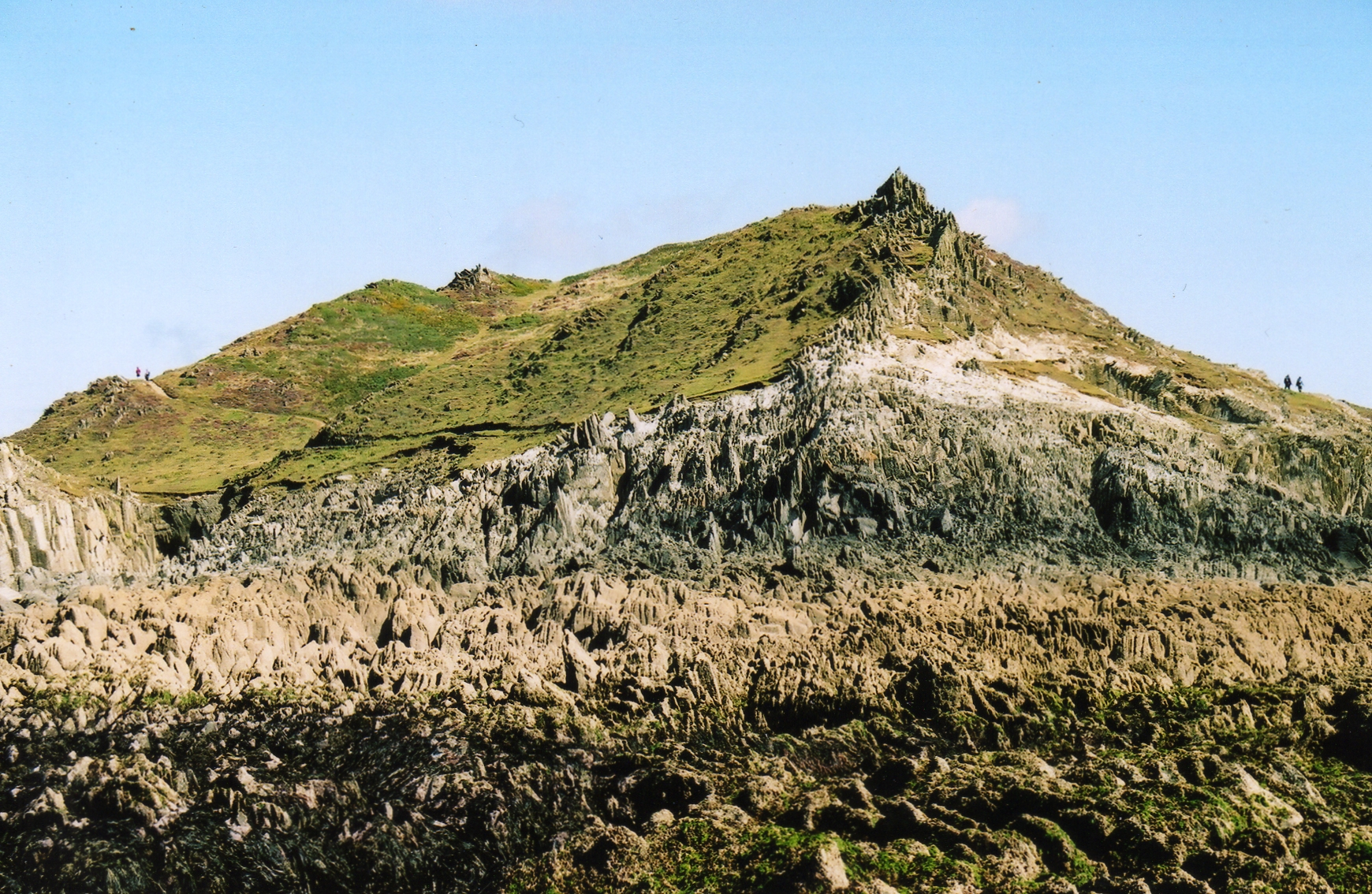 I made this file myself. Copyright (c) 2005 Jack Stedham